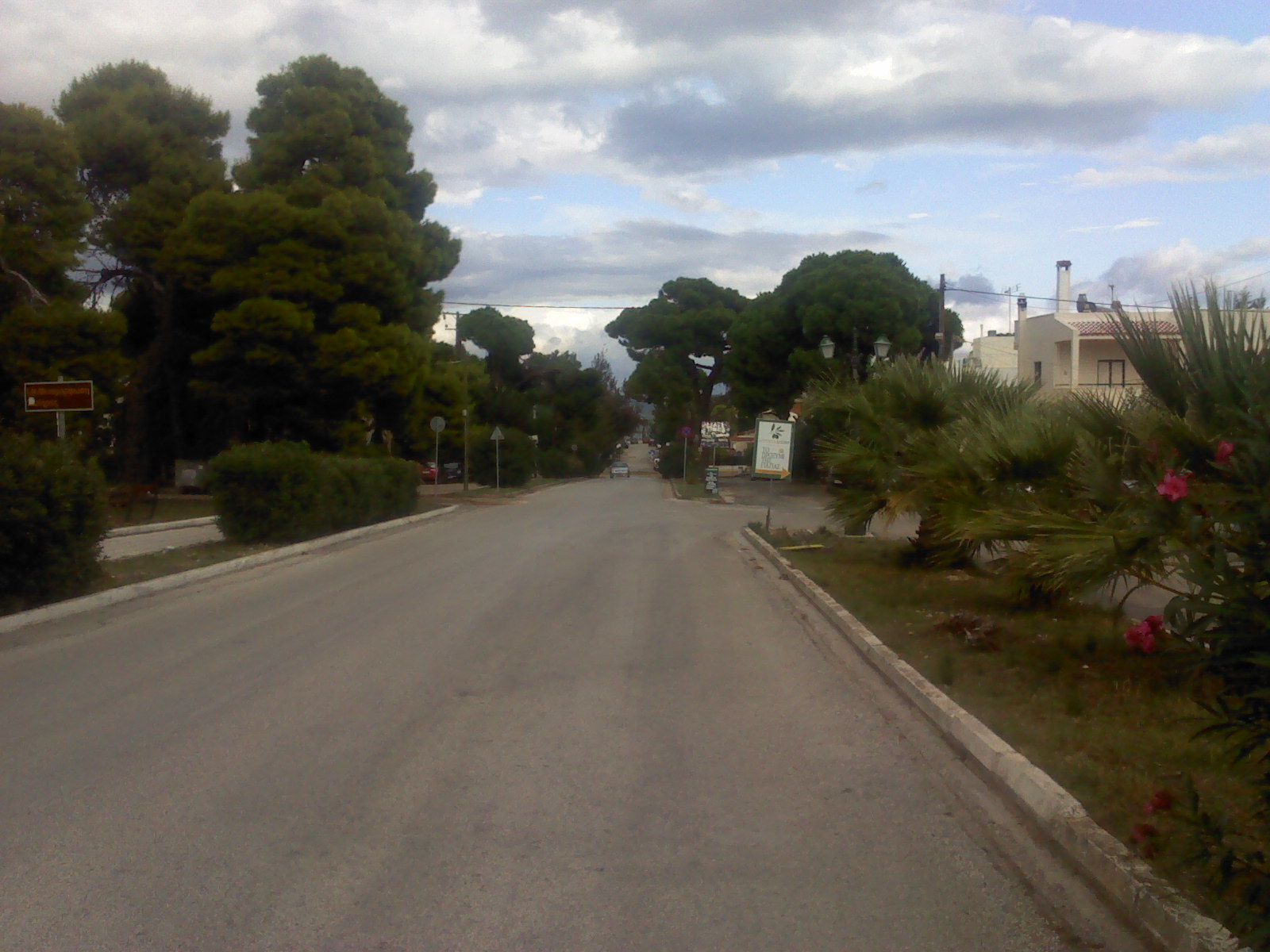 Street Aeroporias Zoumperi